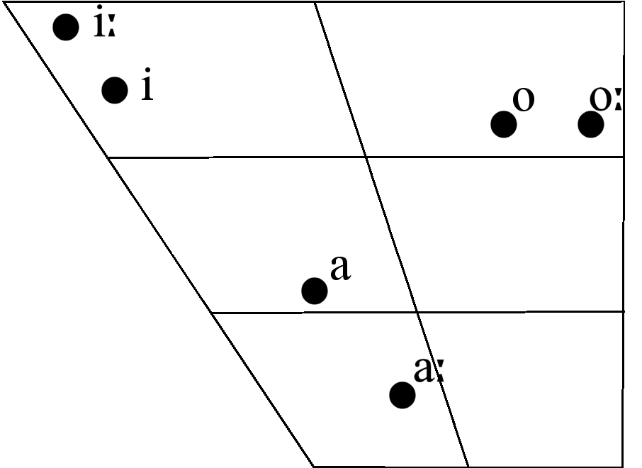 IPA vowel chart for Chickasaw vowel phonemes.